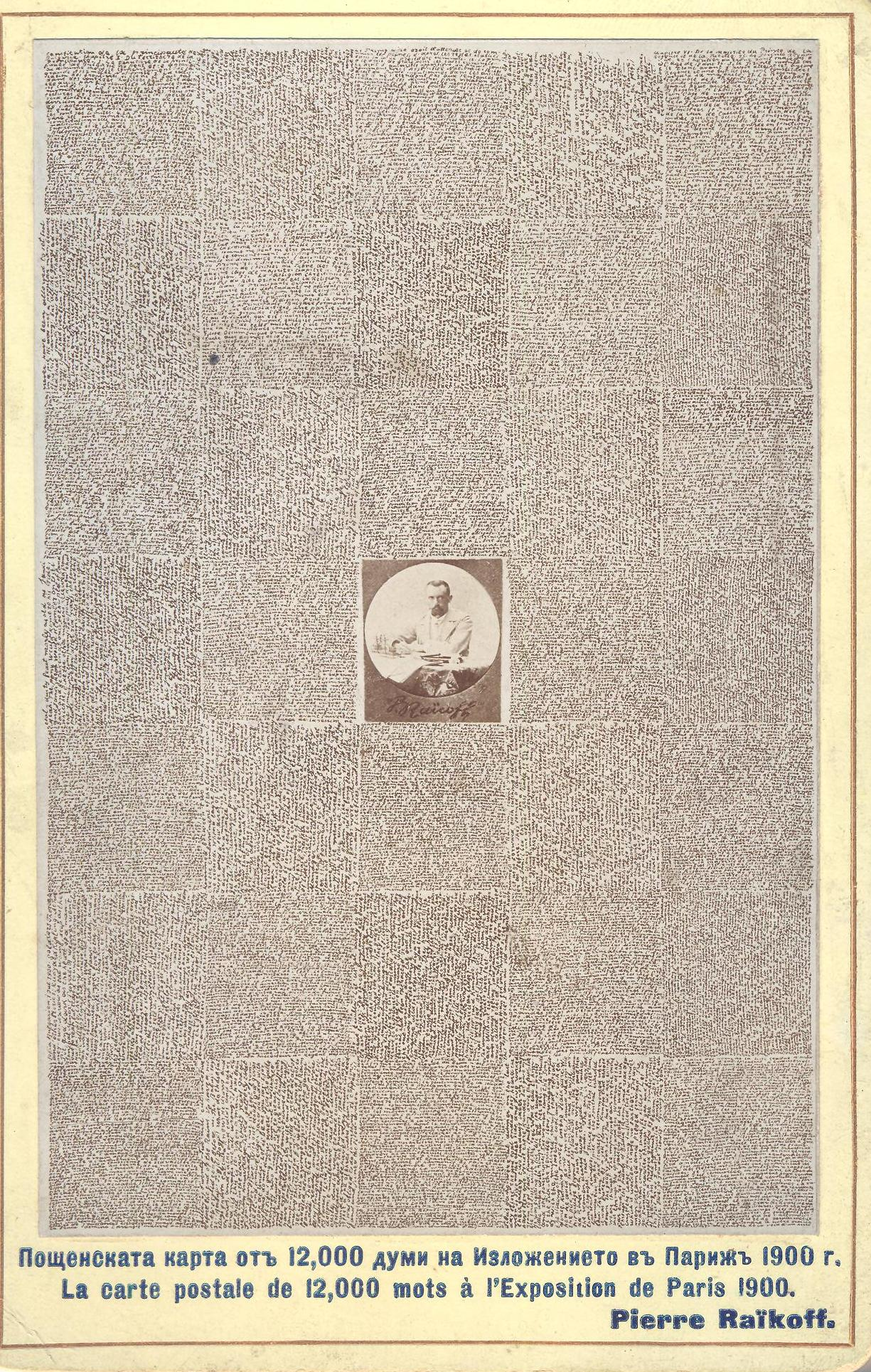 Postcard written on her 12,000 words of Pierre Raykof represented the pavilion of Bulgaria during the World Exhibition in Paris in 1900.